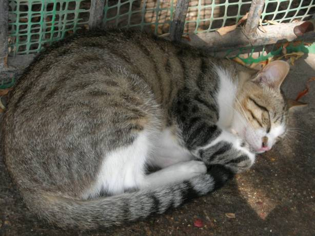 Cat from Kos.